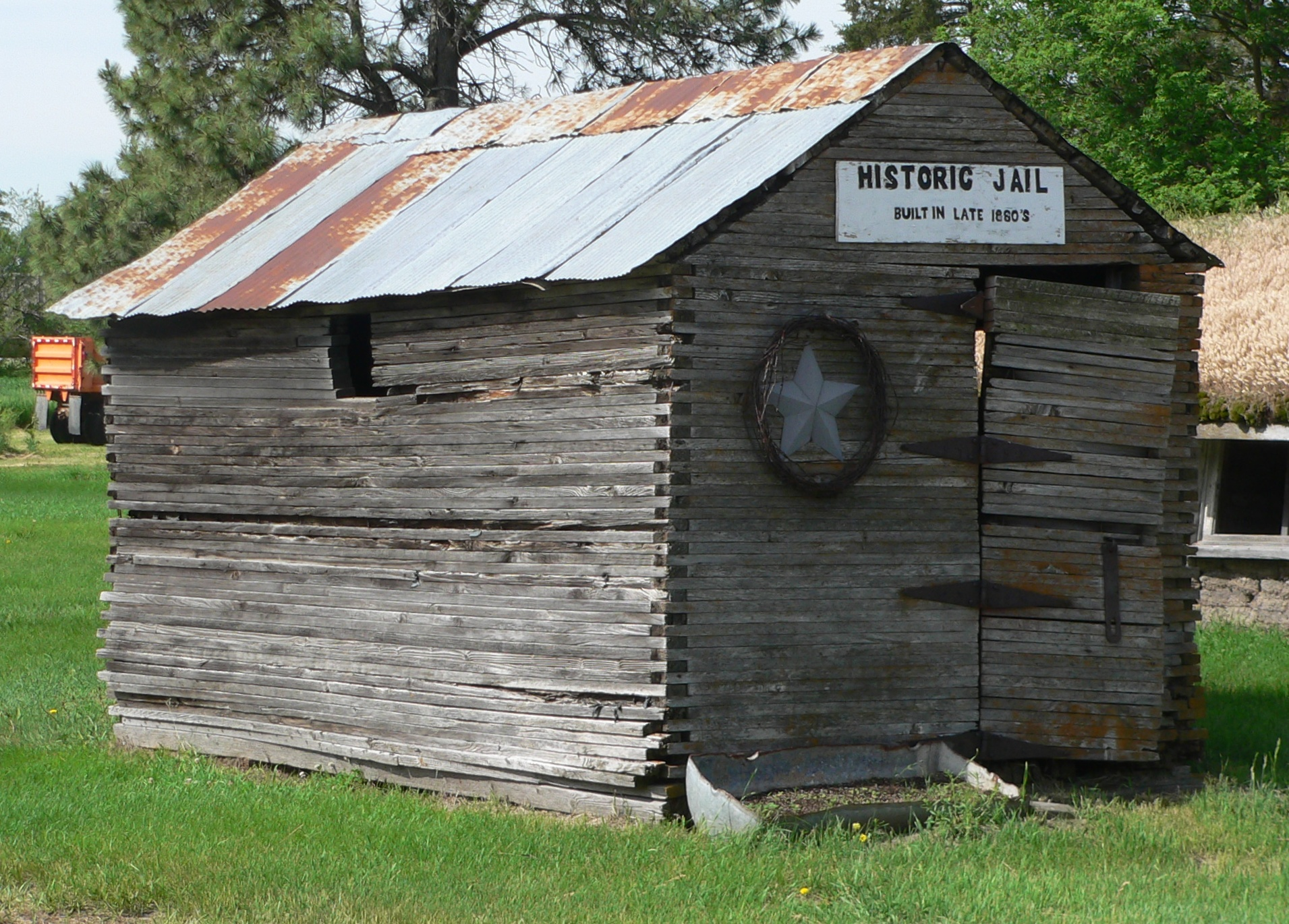 Historic jail in Anselmo, Nebraska.